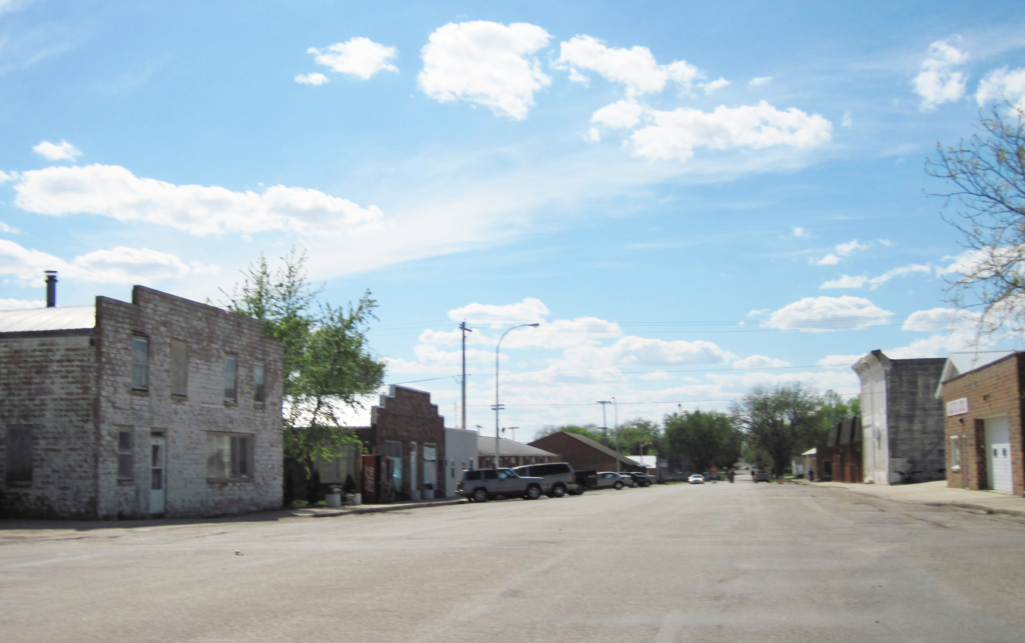 Early